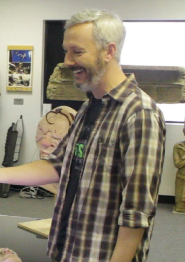 Traceroute: Johannes Grenzfurthner and Matt Winston talk about Stan Winston and special effects